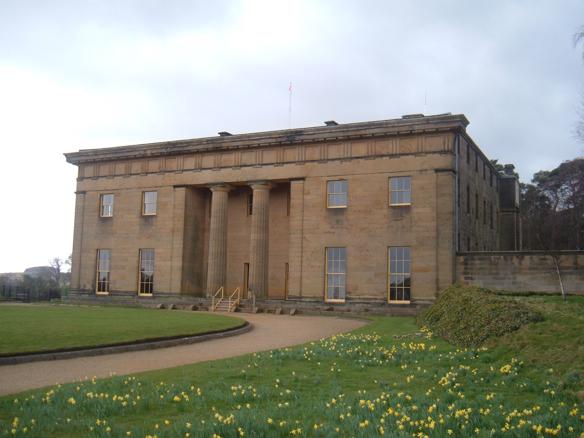 Belsay Hall, Belsay, Northumberland